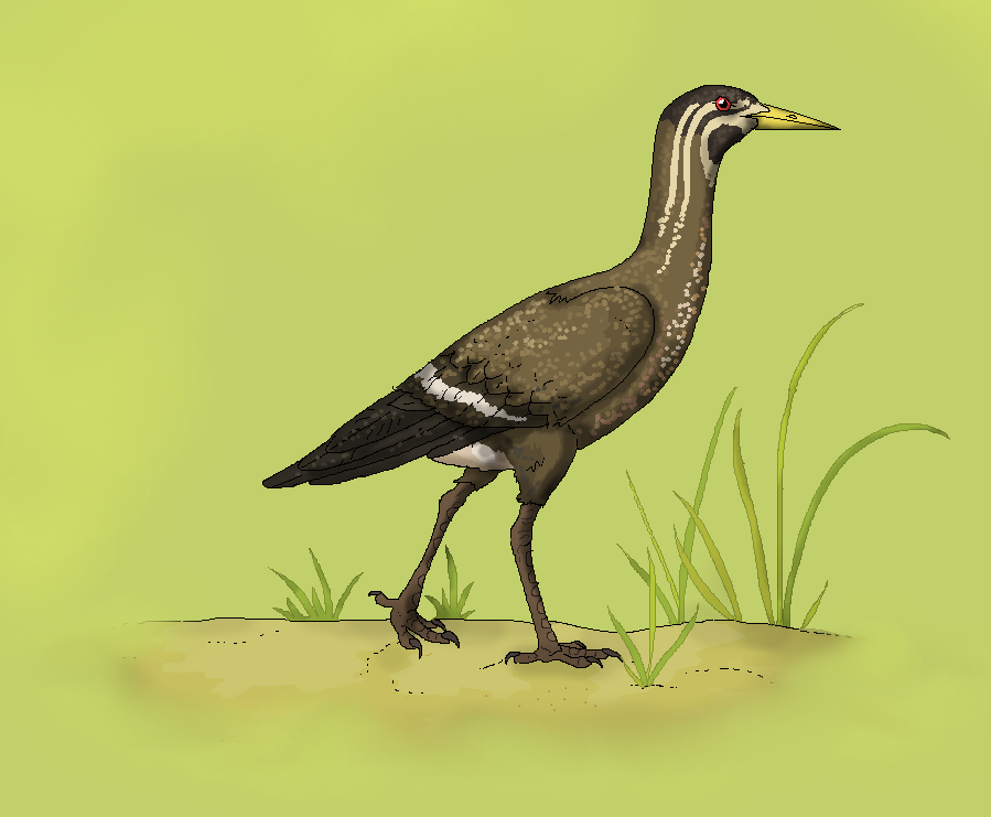 Extinct flying paleognath bird.